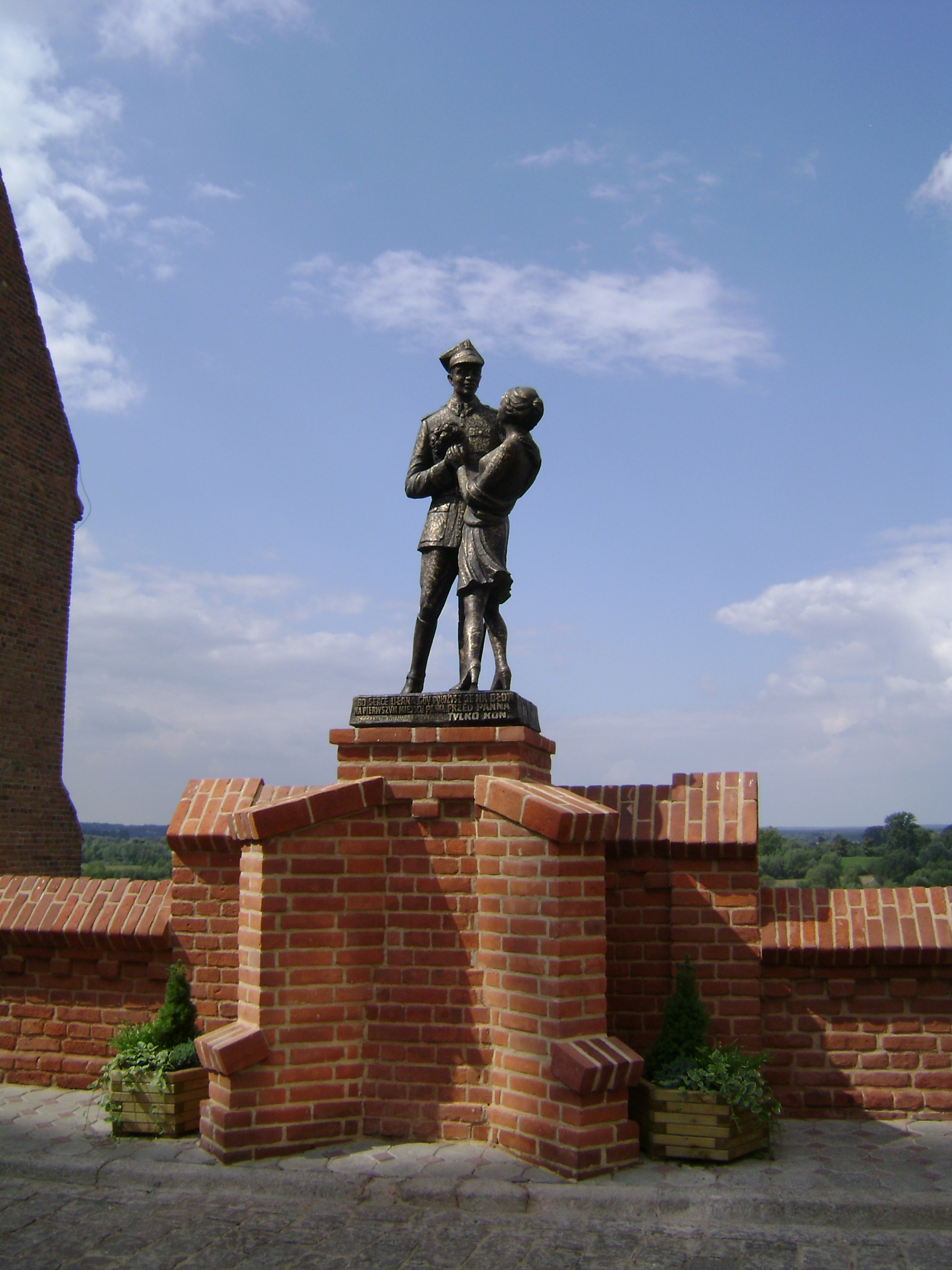 Monument of Uhlan and his girl, Grudziądz, Poland